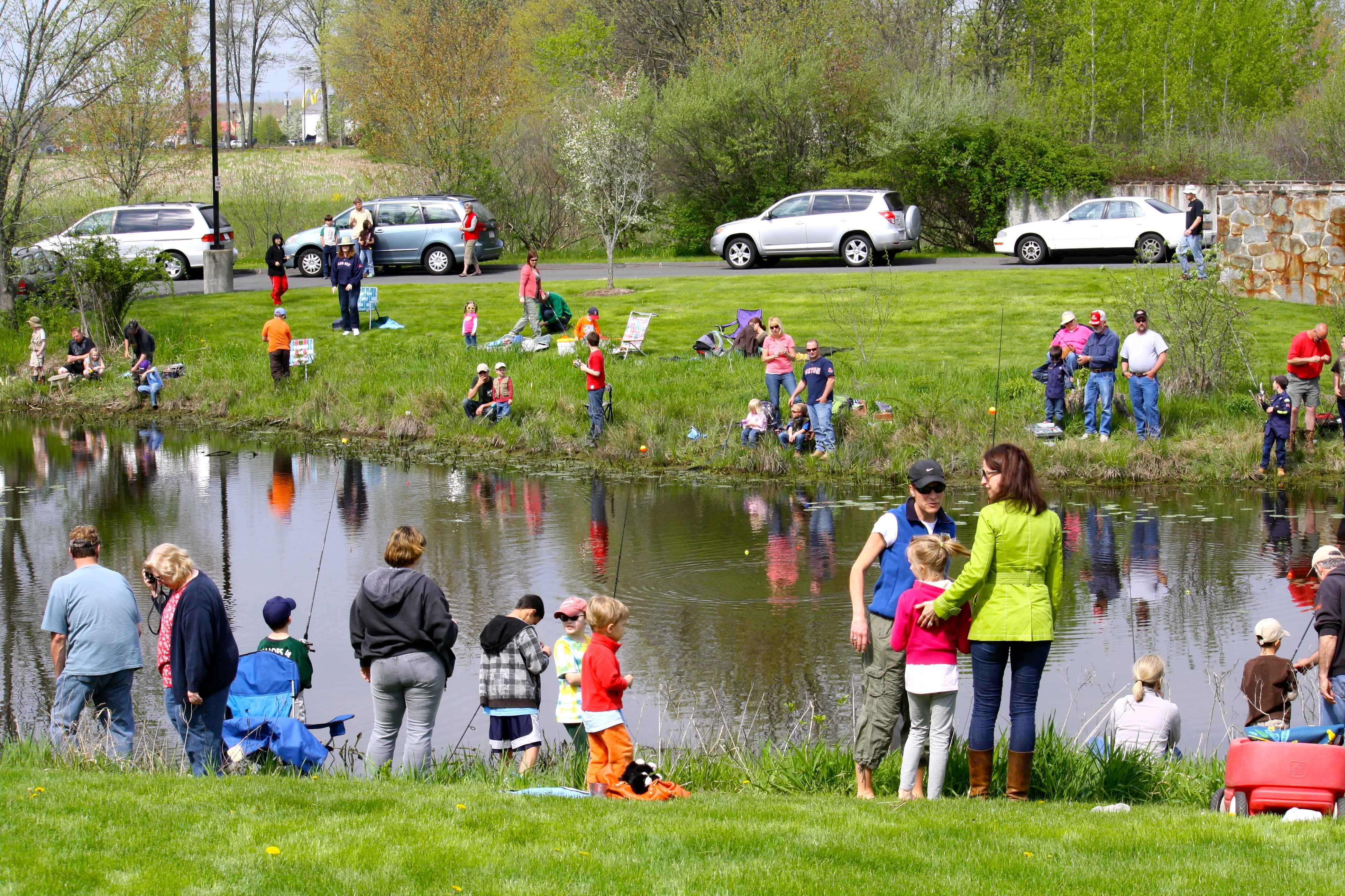 Image title: Fishing derby Image from Public domain images website